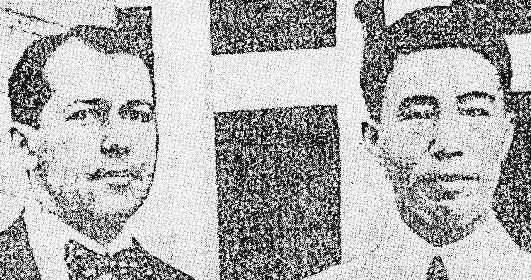 The photograph of Dr. George B. Wolff and Noboru Ishida, that was shot around 1918.